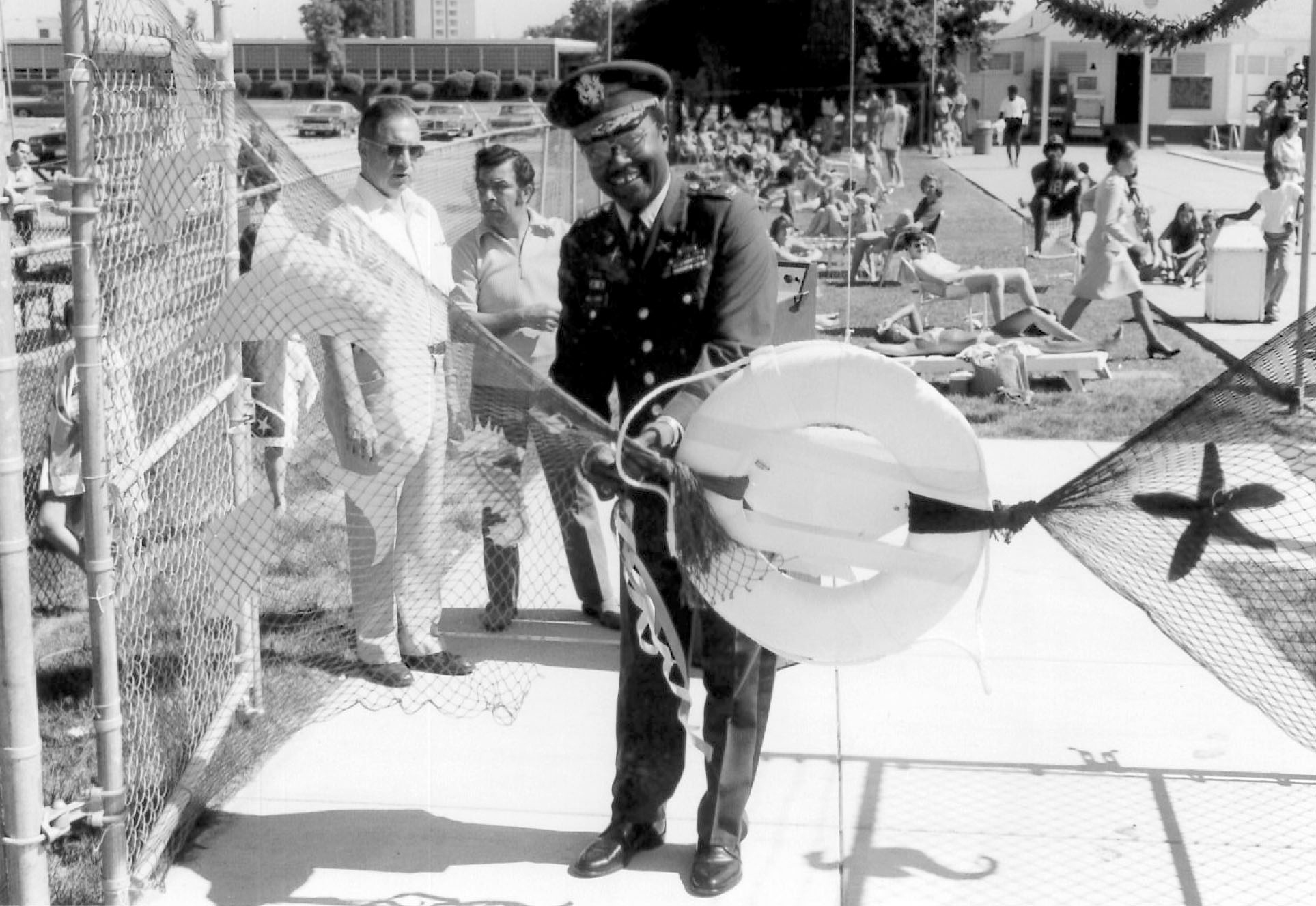 Then-Col. Harvey D. Williams attends a swimming pool ribbon cutting ceremony during his tenure as post commander at Fort Myer, Va. He was the post commander from 1975 to 1977.